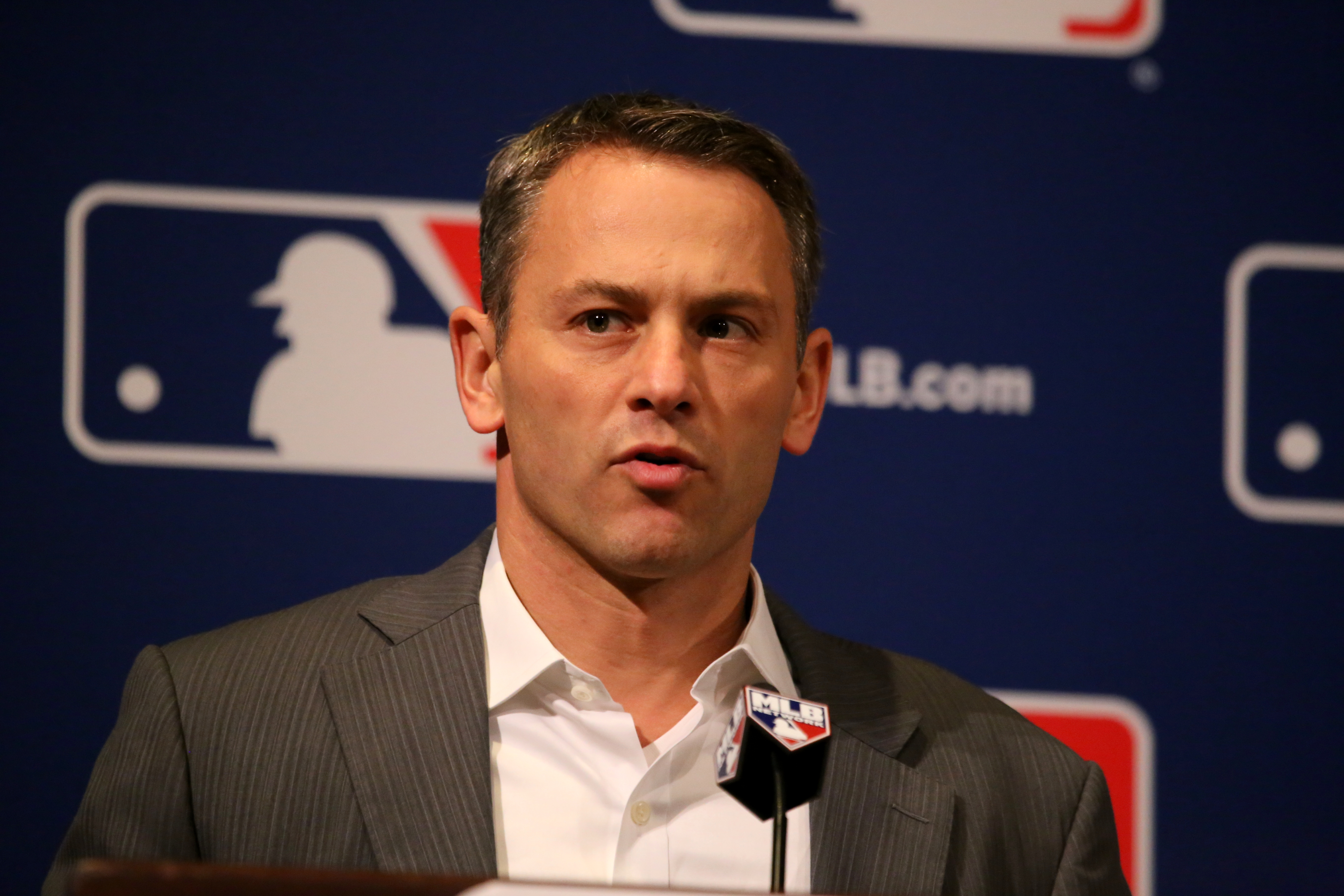 Cubs general manager Jed Hoyer speaks at the #WinterMeetings.